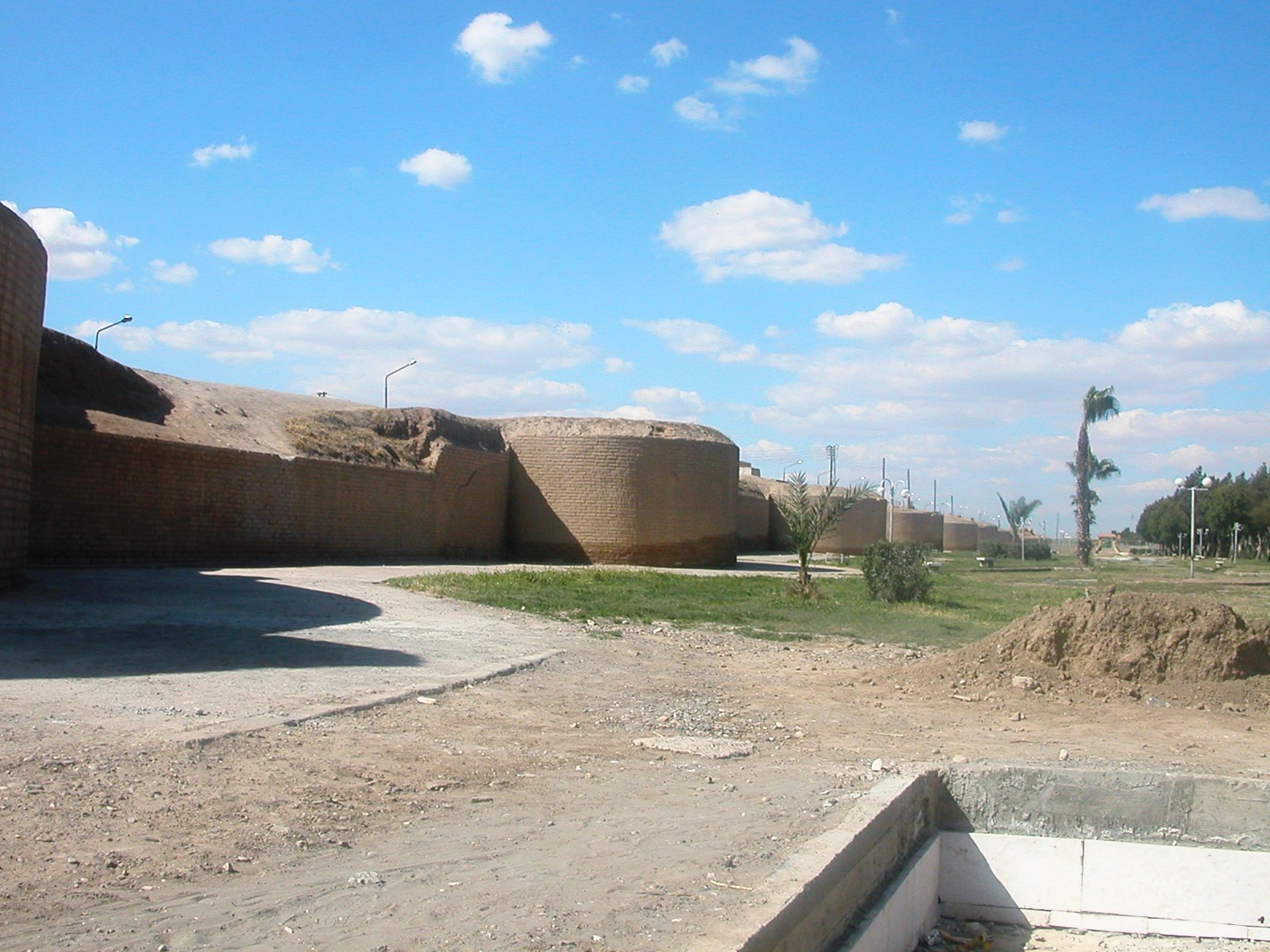 Ar-Raqqa, Syria - City walls from the Abbasid period.